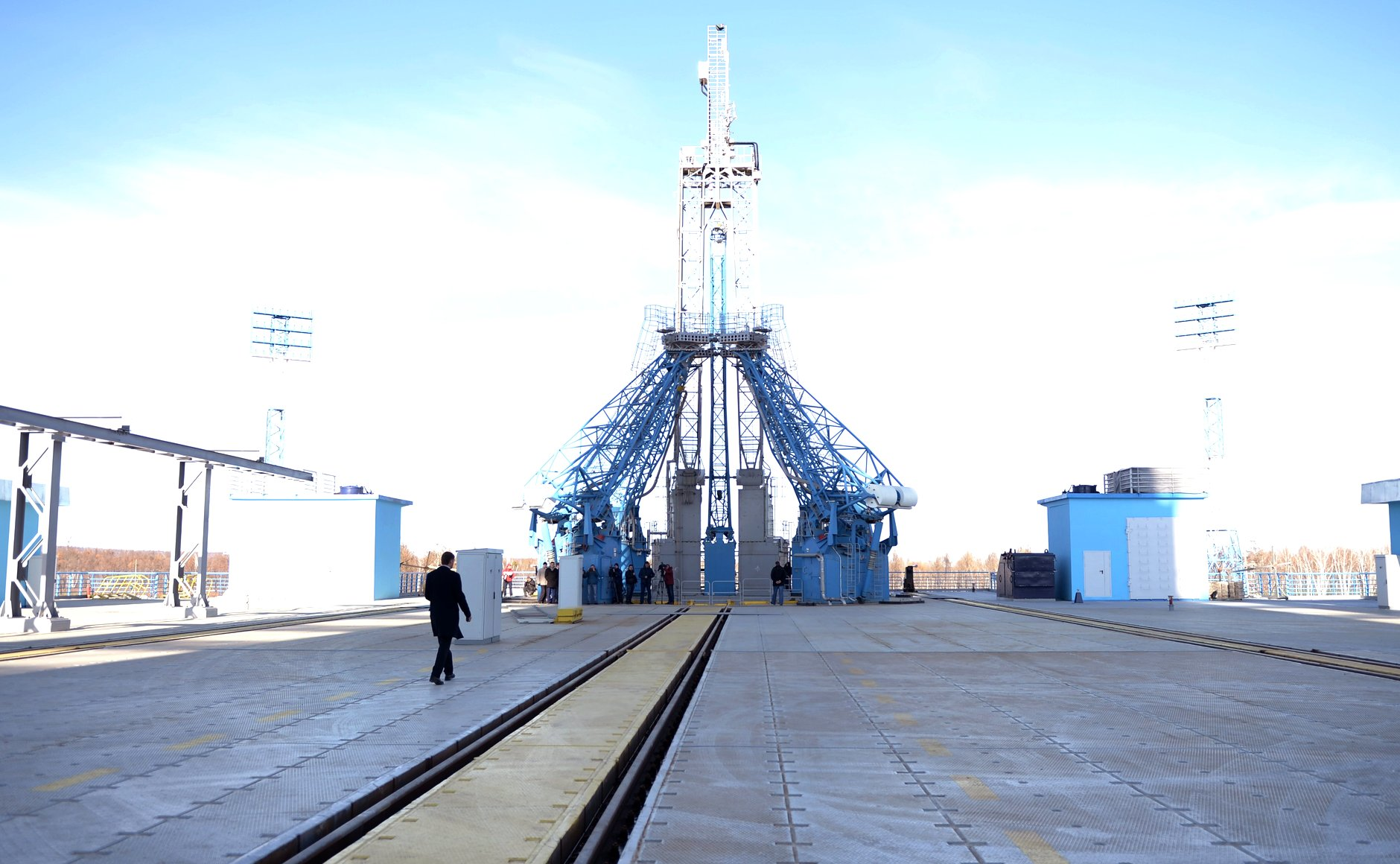 o launch pad of Vostochny Space Launch Centre. (14 oktober 2015)